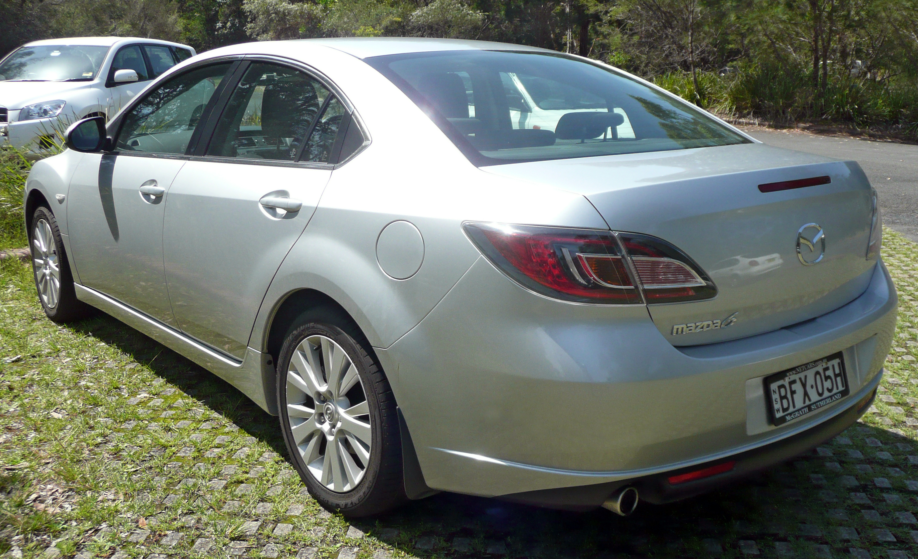 2008 Mazda6 (GH) Classic sedan. Photographed in Audley, New South Wales, Australia.